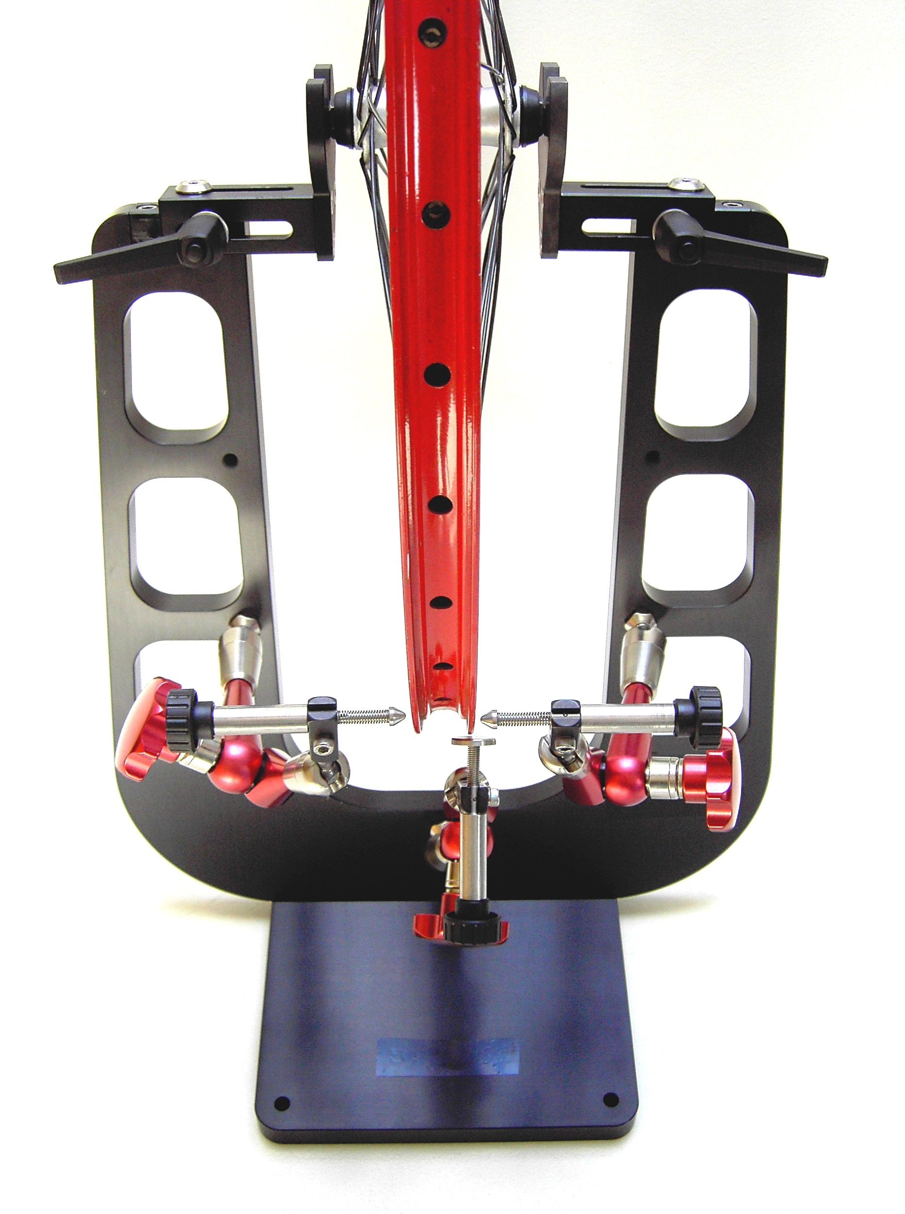 Standard wheel holders Non-center spanning systems are generally referred to as truing stands even though they are only used to clamp or hold a wheel.